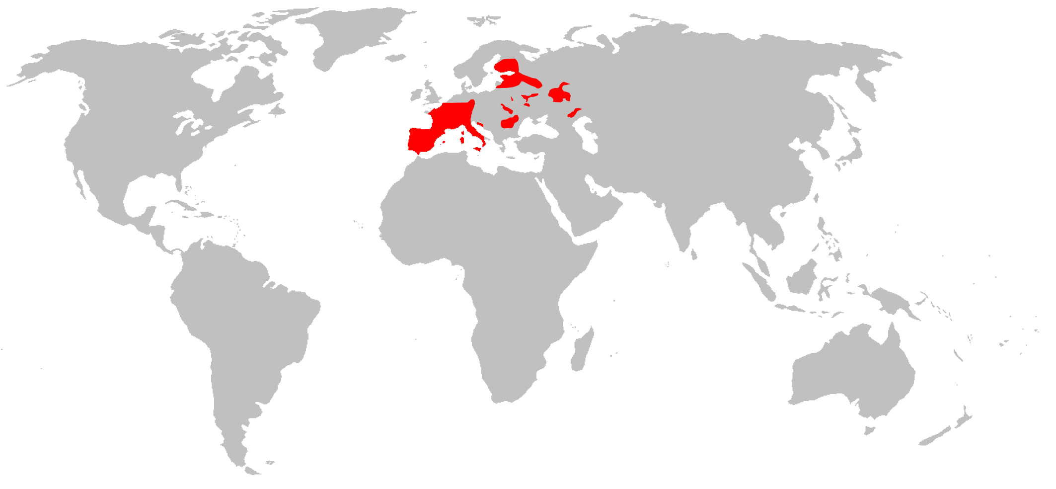 Distribution range map of Eliomys quercinus.